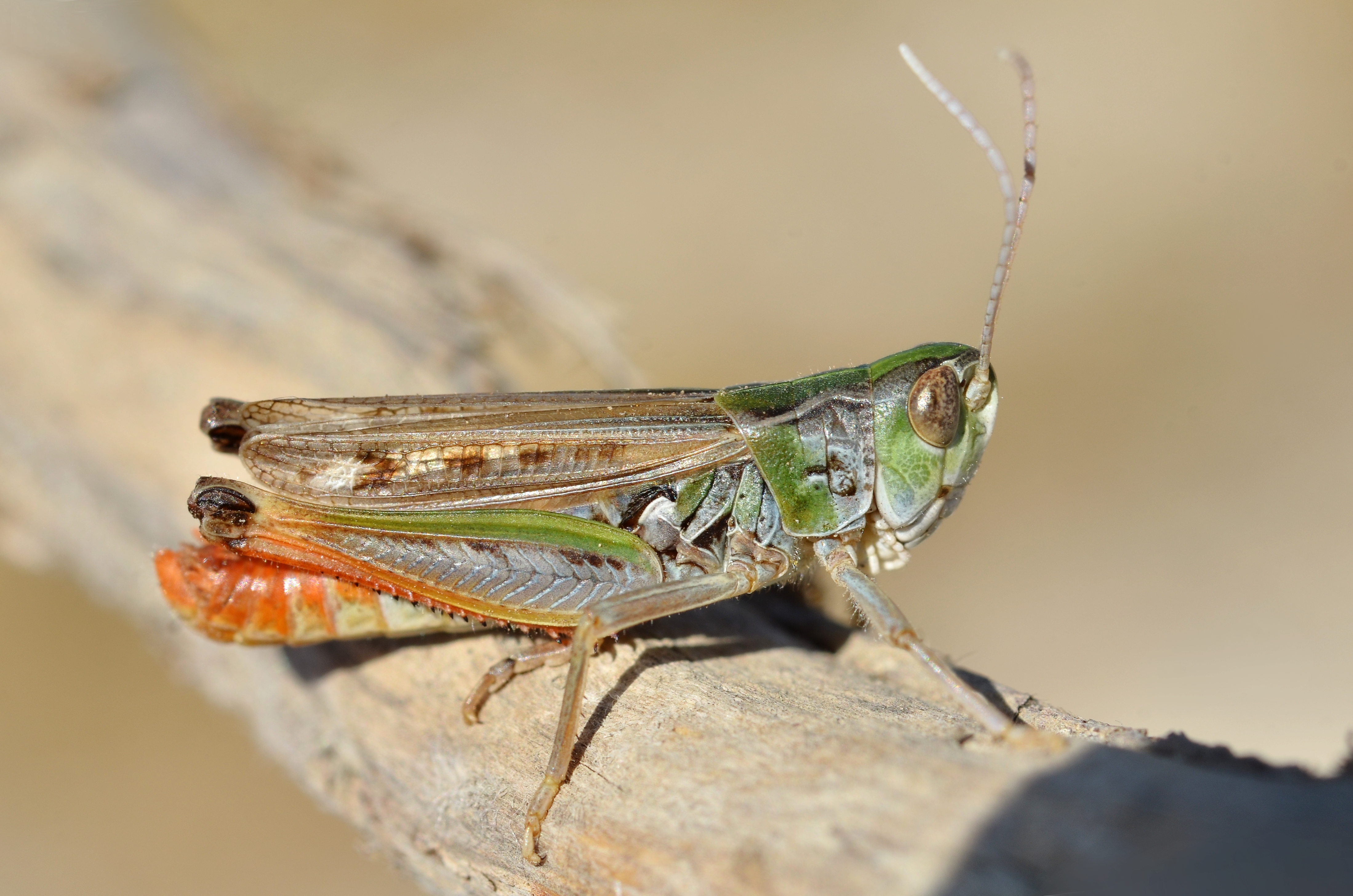 Stenobothrus nigromaculatus male